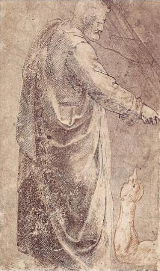 Michelangelo, drawing from the tribute money by masaccio (munich Kupferstichkabinett)